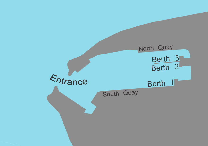 A drawing I did of Heysham Port sourced from an OS map. I have digitalised it in Photoshop.